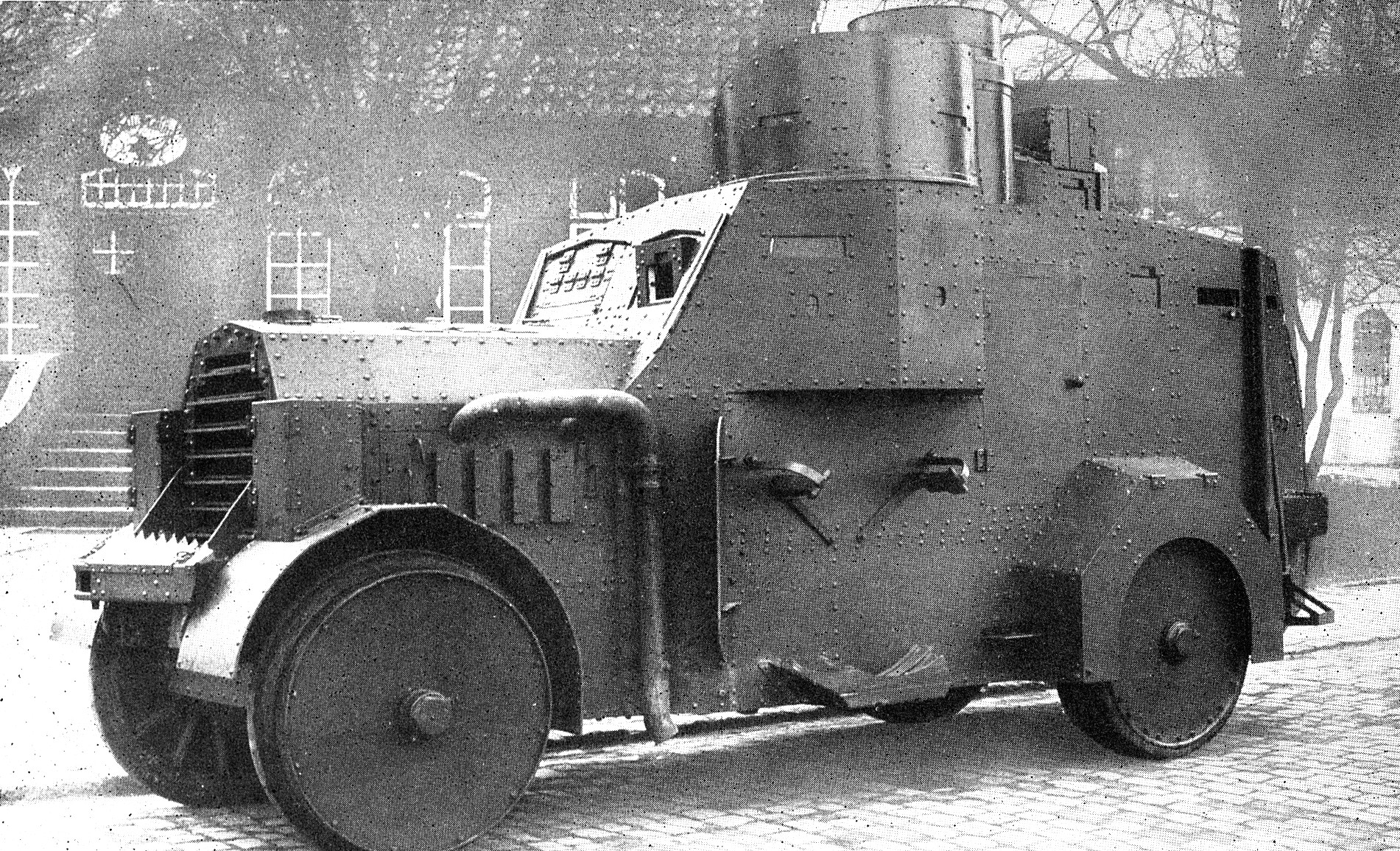 Armoured Police Car model Ehrhardt/21, Germany round about 1921